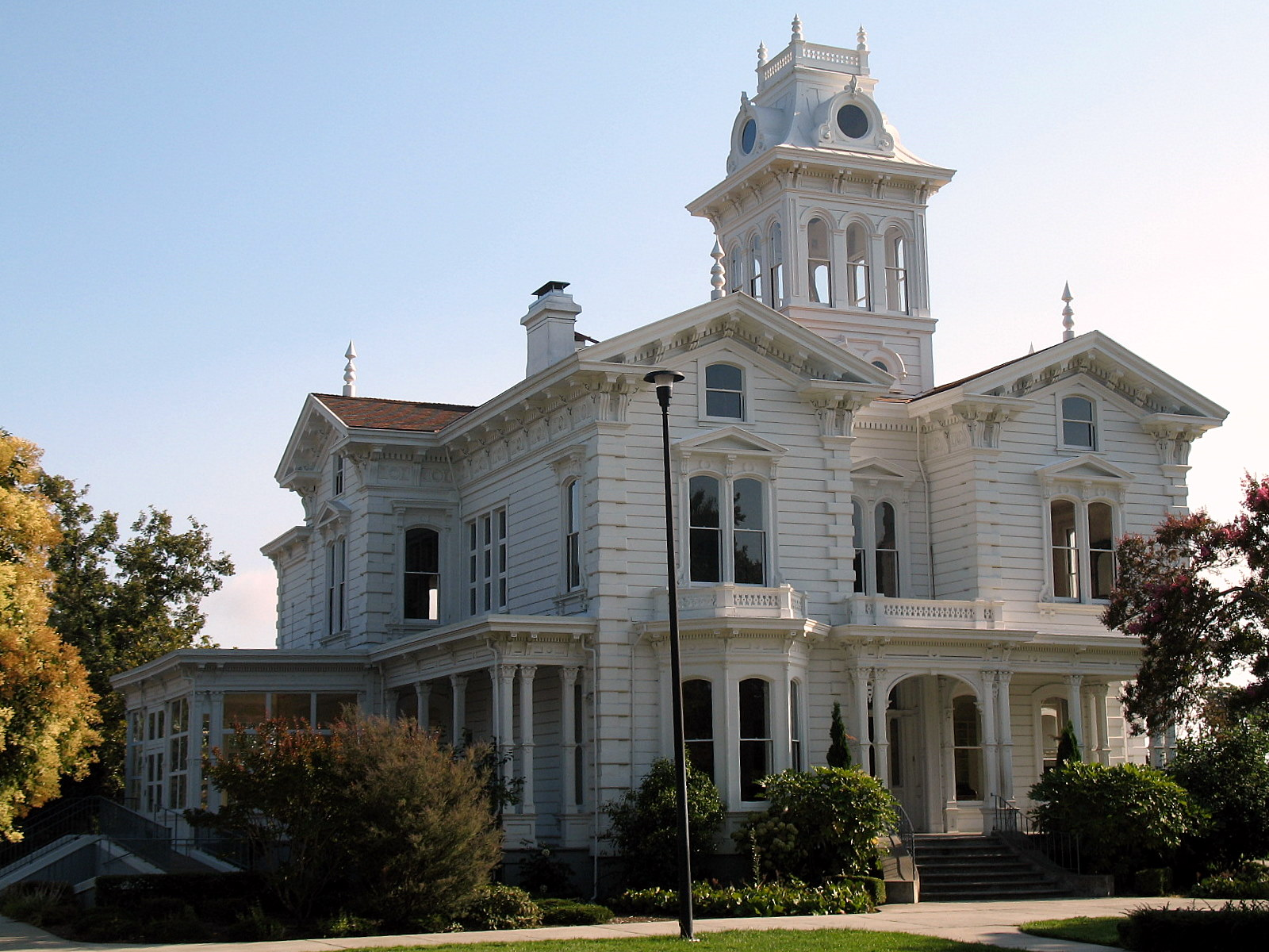 National Register of Historic Places listings in Alameda County, California. Meek Mansion, 240 Hampton Rd, Hayward, California